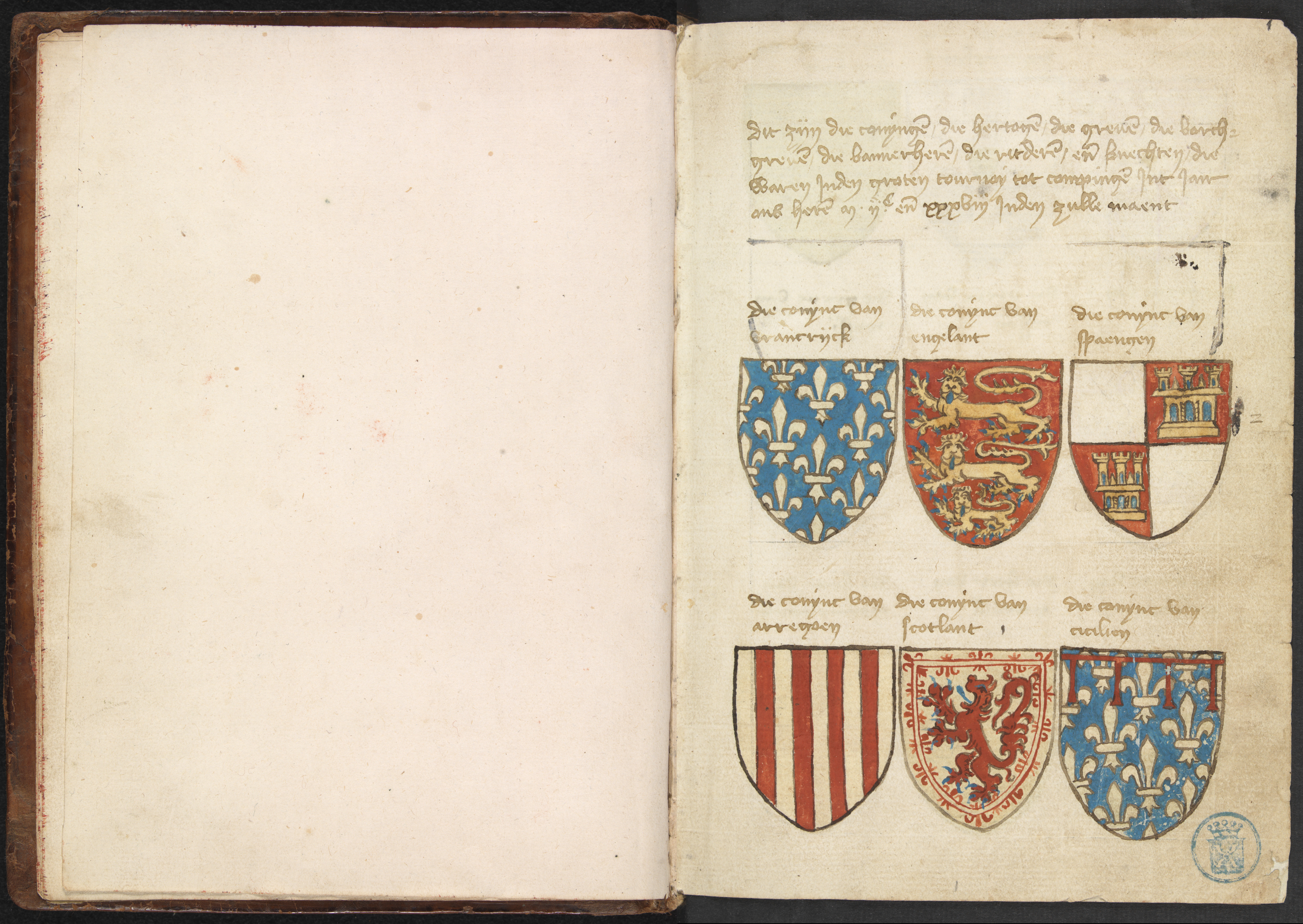 Righthand side folio 001r from the Beyeren armorial / Wapenboek Beyeren King of France King of England King of Spain King of Aragon King of Scotland King of Sicily